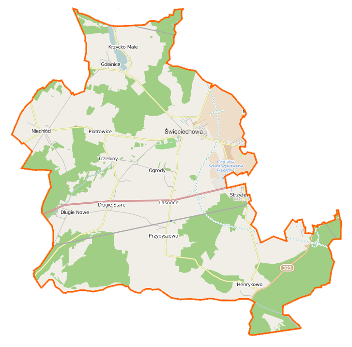 Map of Gmina Święciechowa, Poland This map of Święciechowa (gmina) was created from OpenStreetMap project data, collected by the community. This map may be incomplete, and may contain errors. Don't rely solely on it for navigation. Border coordinates51.912816.3648←↕→16.614051.7606